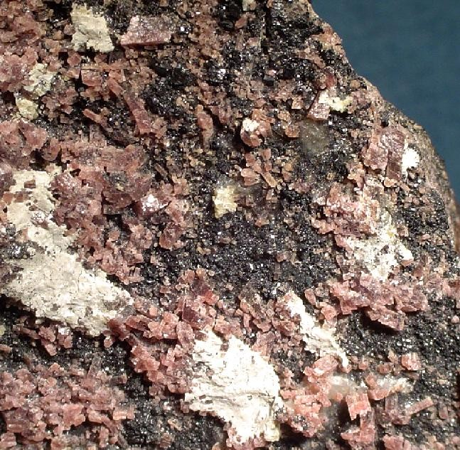 Långbanite, Rhodonite Locality: Långban, Filipstad, Värmland, Sweden (Locality at ) Size: 11.0 x 8.2 x 5.2 cm. Langbanite is an very rare silicate, found in only 5 localities worldwide. The Langban manganese-iron deposit of Sweden is the Type Locality. This cabinet manganese ore specimen is essentially solid langbanite and the black langbanite microcrystals are beautifully complimented by the rose-red rhodonite crystals. Ex. Yale Peabody Museum Collection.